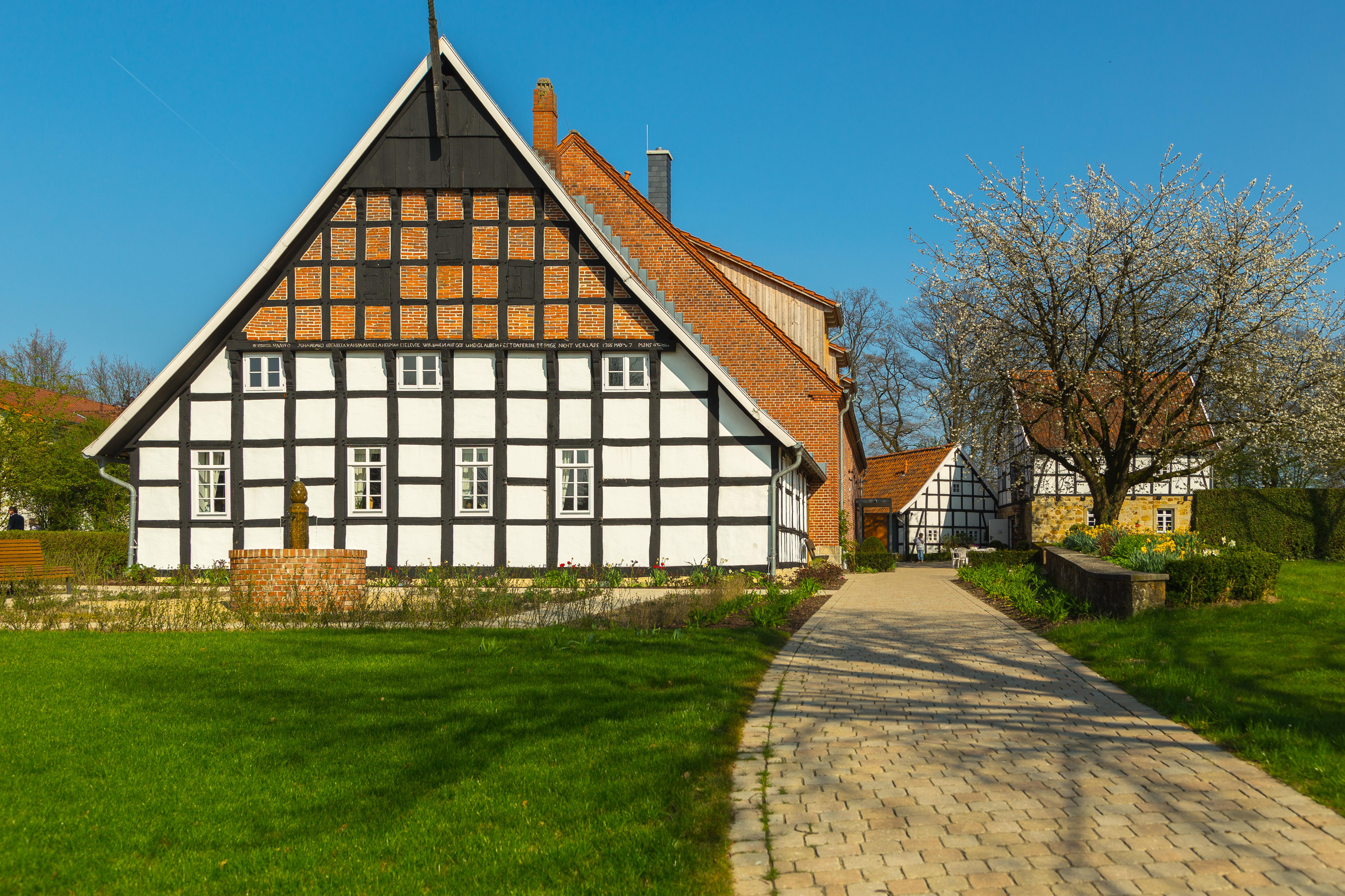 Averbeck's Farm (Averbecks Hof) in Glane, Bad Iburg, Landkreis Osnabrück, Lower Saxony, Germany.